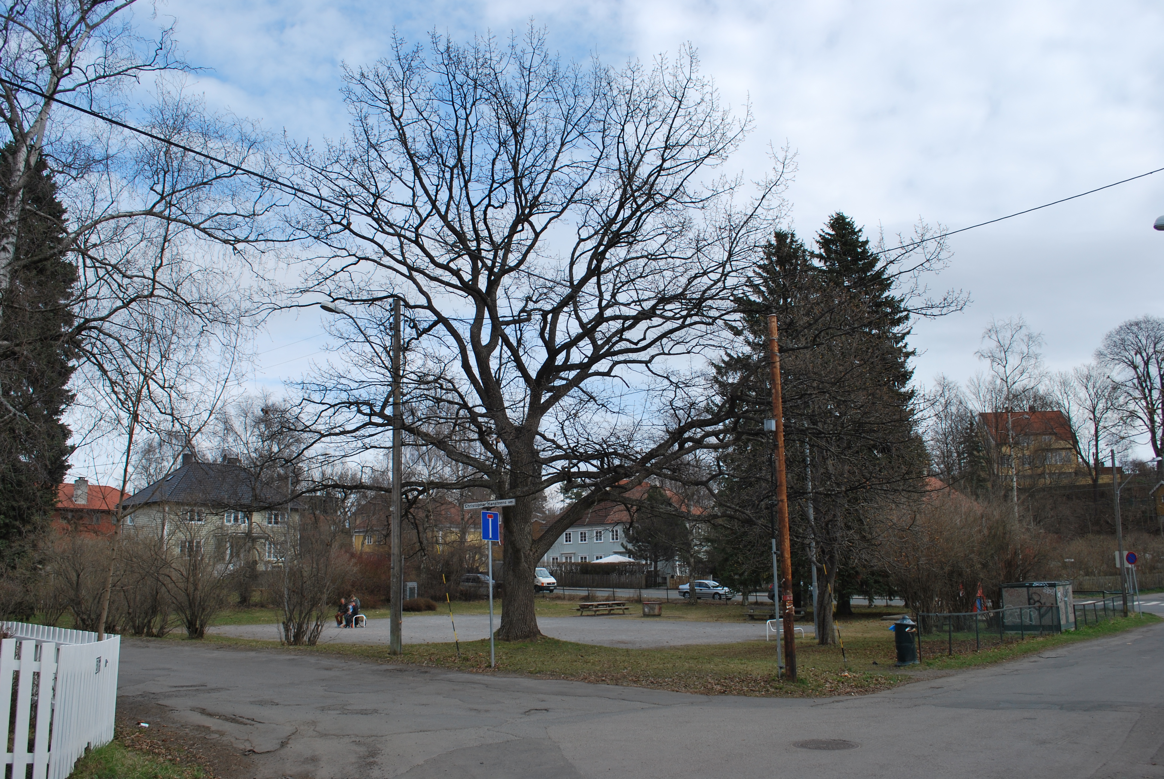 Arvid Storsveens plass, Blindern, Oslo, Norway